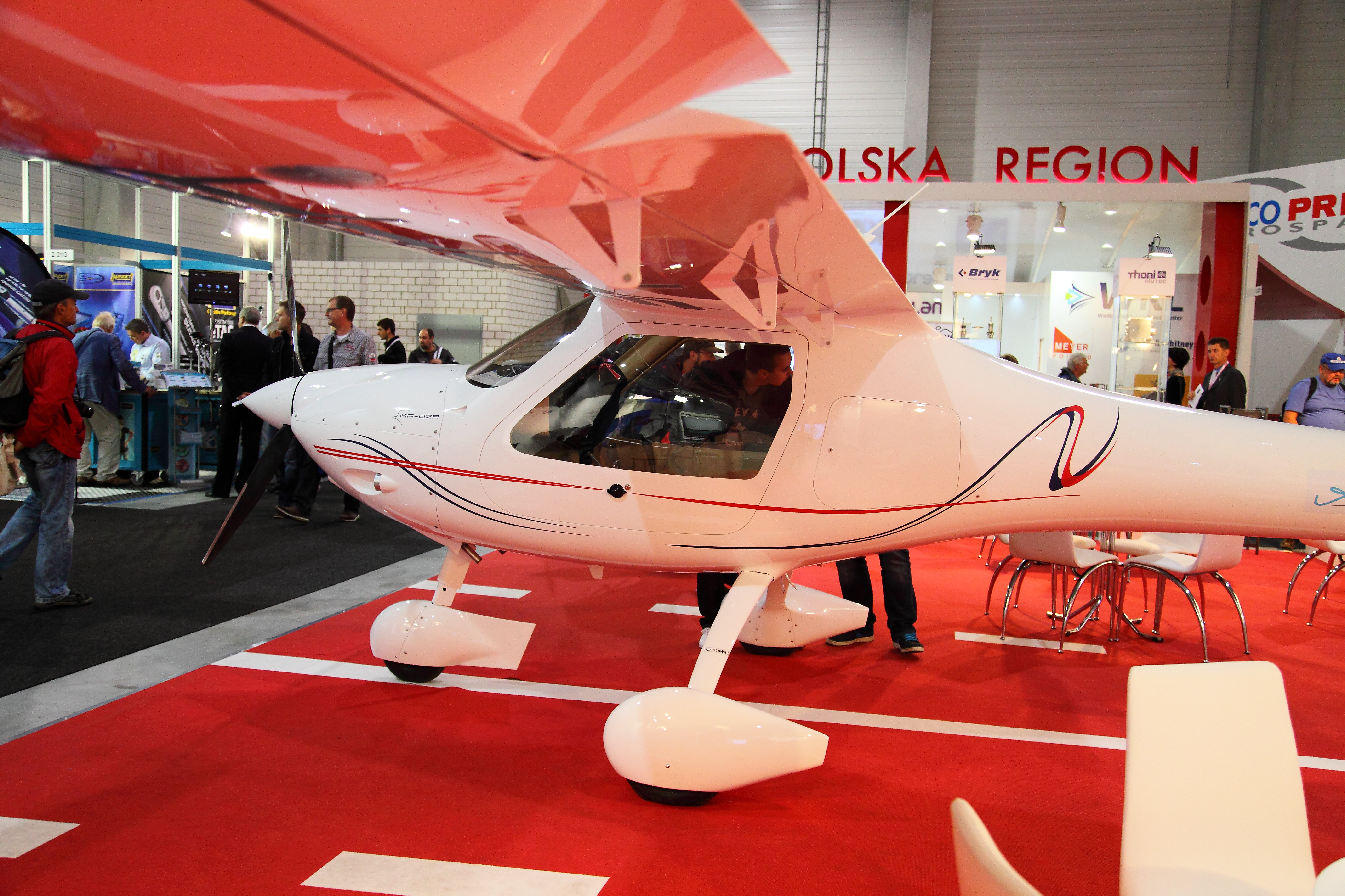 ILA Berlin Air Show 2012 ; MP-02 Czajka (manufacturer: Aero-Kros, Poland)